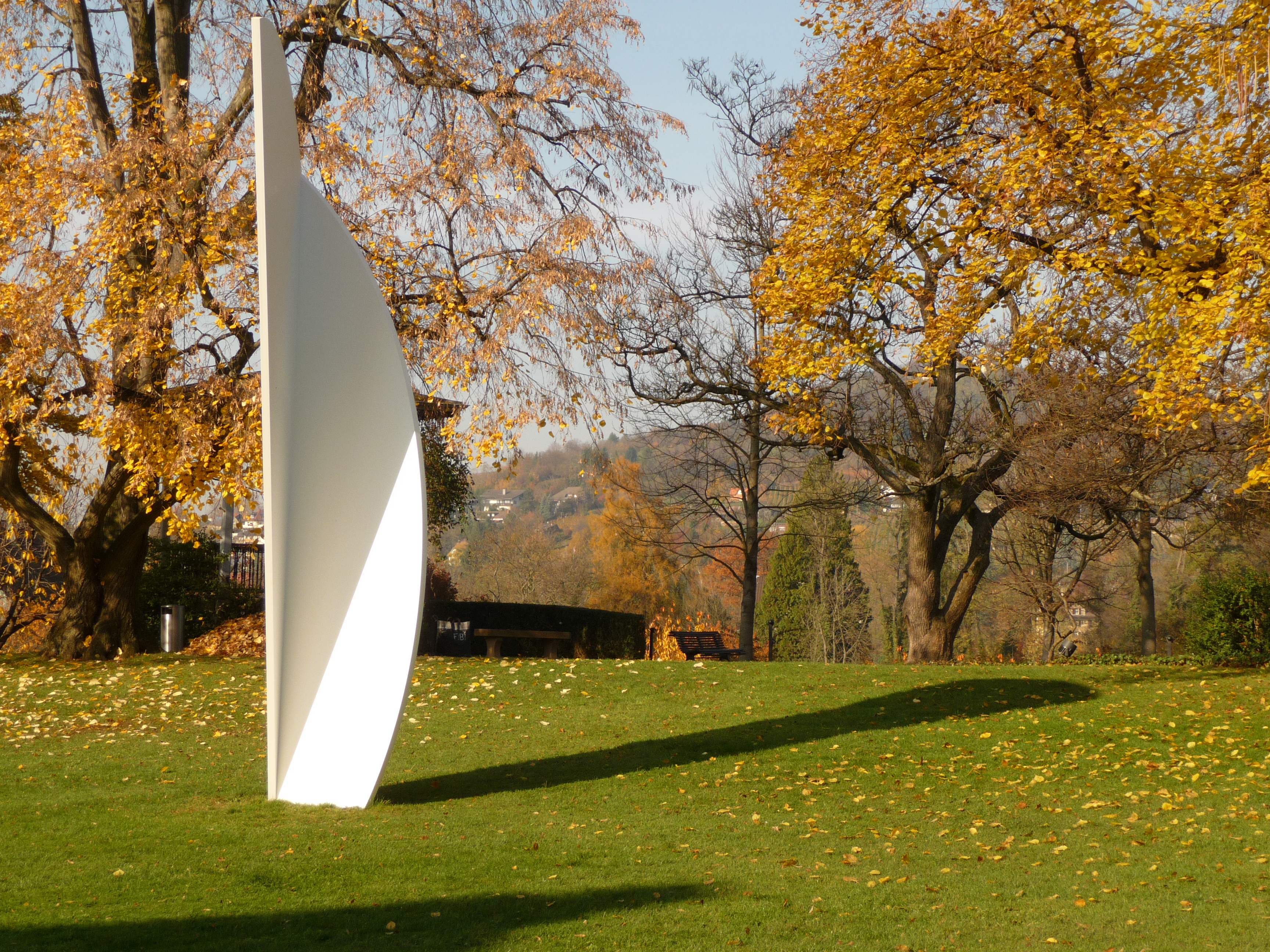 Fondation Beyerle in Riehen/Basel, Switzerland; garden with sculpture by Ellsworth Kelly